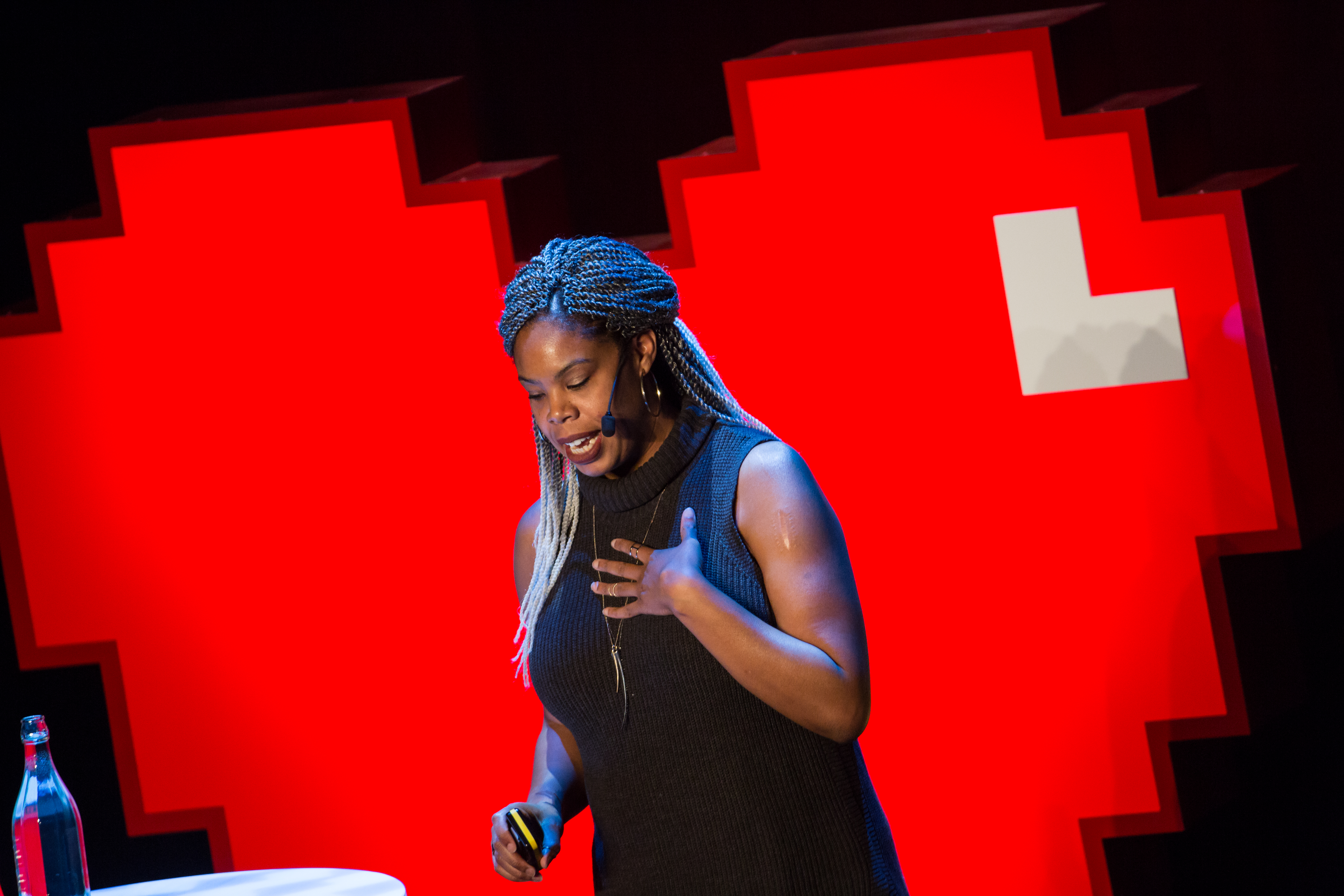 Erika Baker giving a keynote speech at Internetdagarna 2016